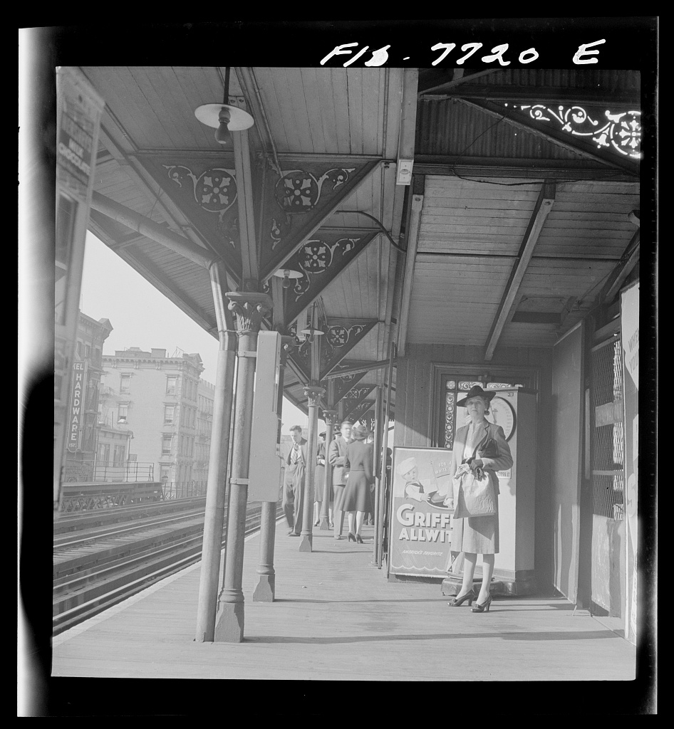 New York, New York. Third Avenue elevated railway station in the "Seventies" at 8:30 a.m.